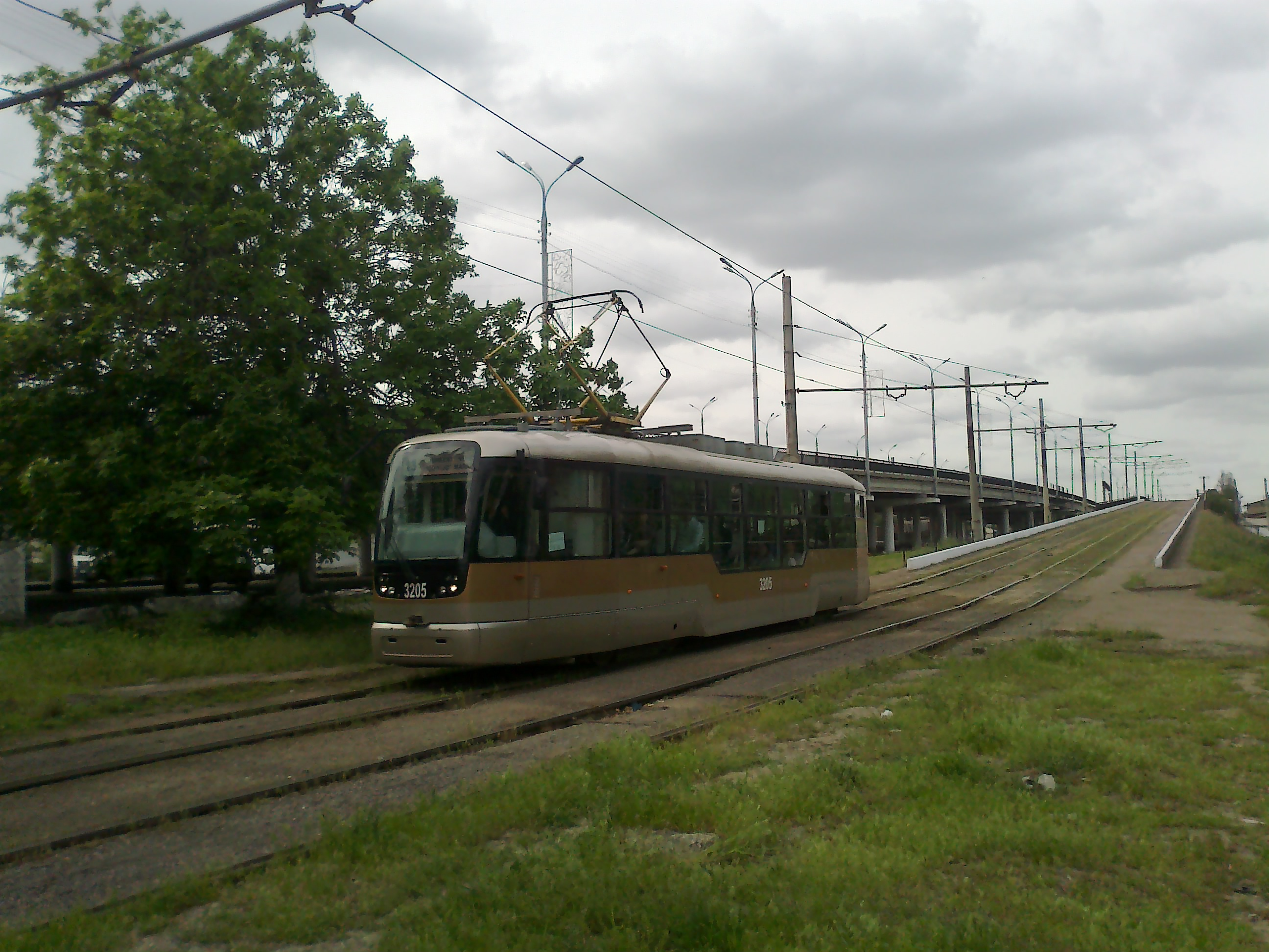 Vario LF № 3205 in Tashkent, Fergana highway